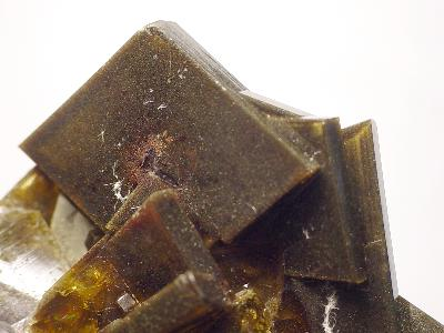 Baryte Locality: Magma Mine (Magma Superior Mine; Irene claim; Hub claim; Pomeroy; Superior Division; Silver Queen; Monarch claim; Magma Copper Mine; Broken Hill; Apex), Superior, Pioneer District, Pinal Mts, Pinal County, Arizona, USA (Locality at ) Size: small cabinet, 6 x 4 x 4 cm BARITE A super Arizona classic, featuring barite with inner lively sparkles and golden color beneath the seemingly brown surface. It is common enough in mediocrity, but this is one of the very best I have seen for sale and is 2 orders of magnitude better than most. There is some damage, mostly at the lower periphery of the cluster, but it is also more or less complete all around and given the size of the crystals, quite remarkable for the occurrence. It is also an old specimen from the Schwethelm Collection (purchased from Obodda in the 1970s). Comes with custom-made lucite display base for easy showing.